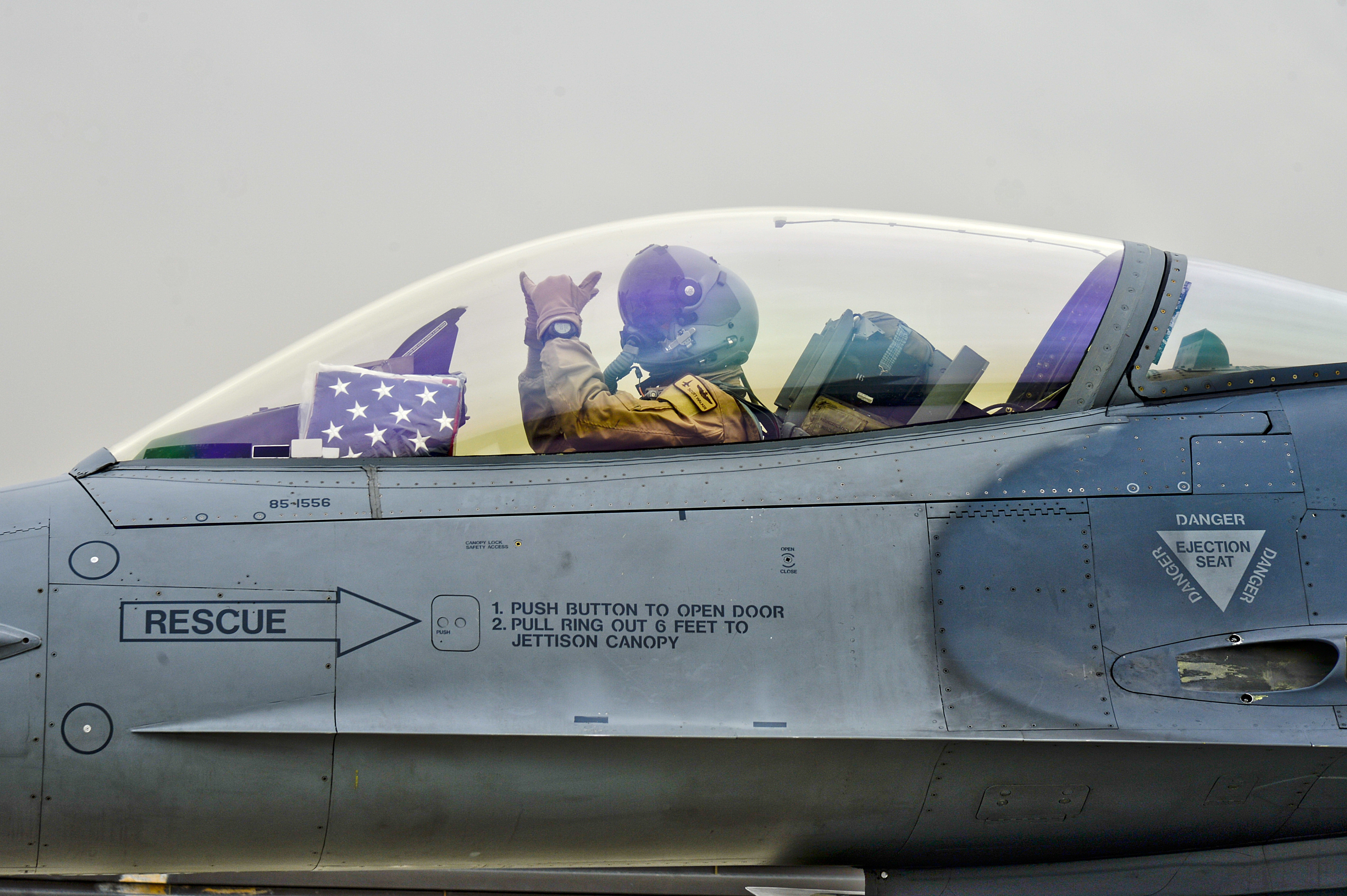 U.S. Air Force Lt. Col. Scott Walker, an F-16 Fighting Falcon aircraft pilot and the commander of Detachment 93, 495th Fighter Group, prepares to take off from Bagram Airfield in Afghanistan Feb. 18, 2014.